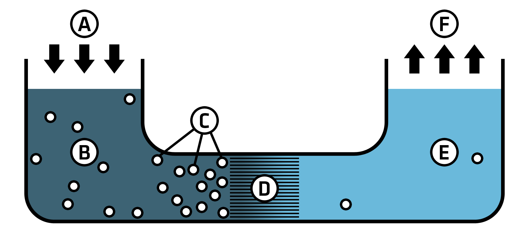 Key: A – Applied pressure B – Seawater in C – Contaminants D – Semi-permeable membrane E – Potable water out F – Distribution